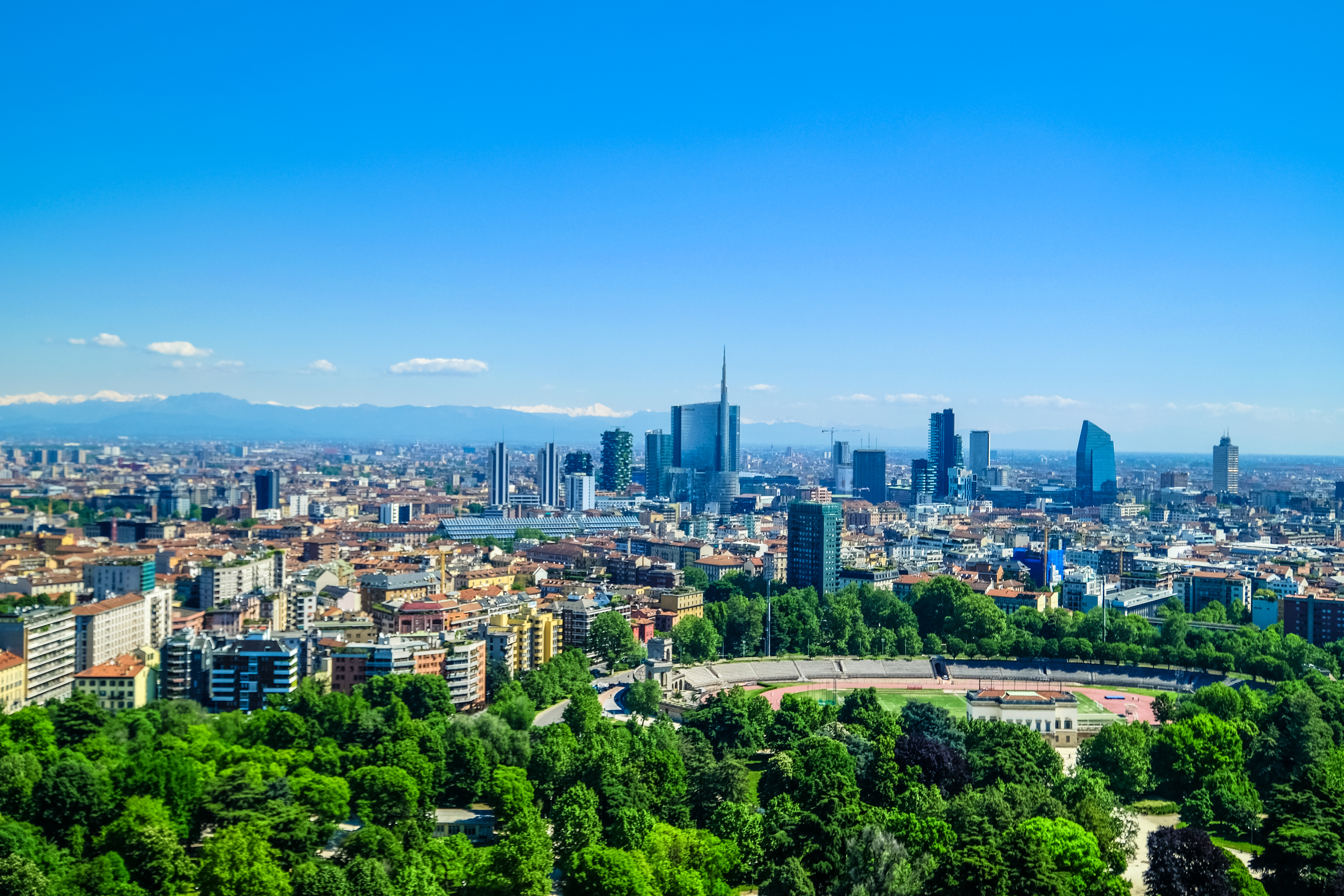 Picture showing the skyline of Milan.